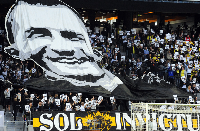 The public of AIK in Ivan Turina Charity Game